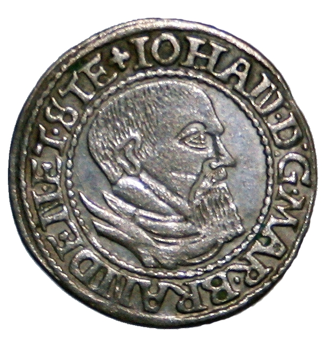 Averse of Johann von Brandenburg-Küstrin White Groschen, 1545 Silver, weight 1.8 g, diameter 23 mm, Krosno Odrzańskie (Crossen) Text: IOHAN DG MAR BRANDEN ET STE